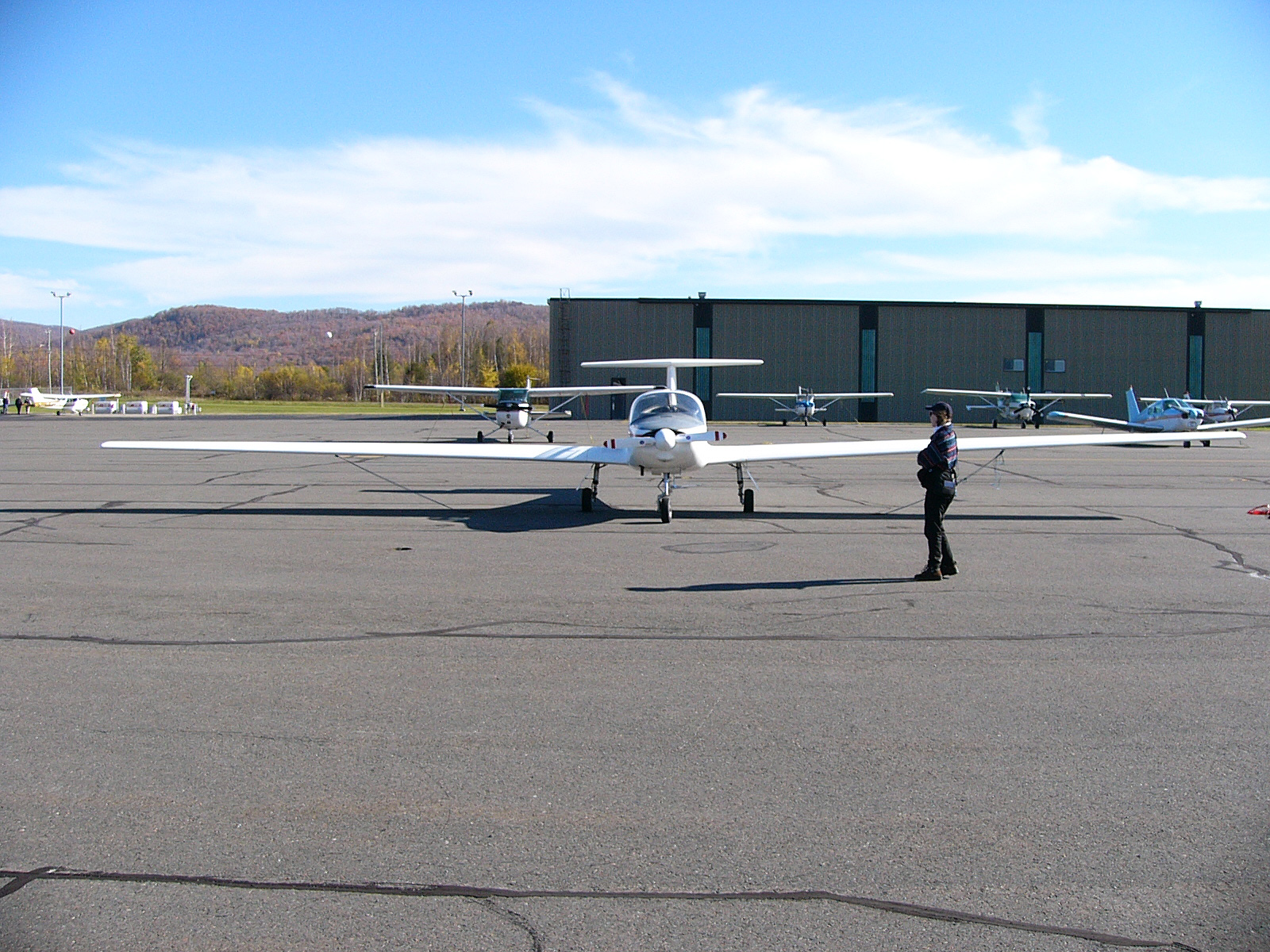 Valentin Taifun 17E motor glider at the Bromont Quebec Airport